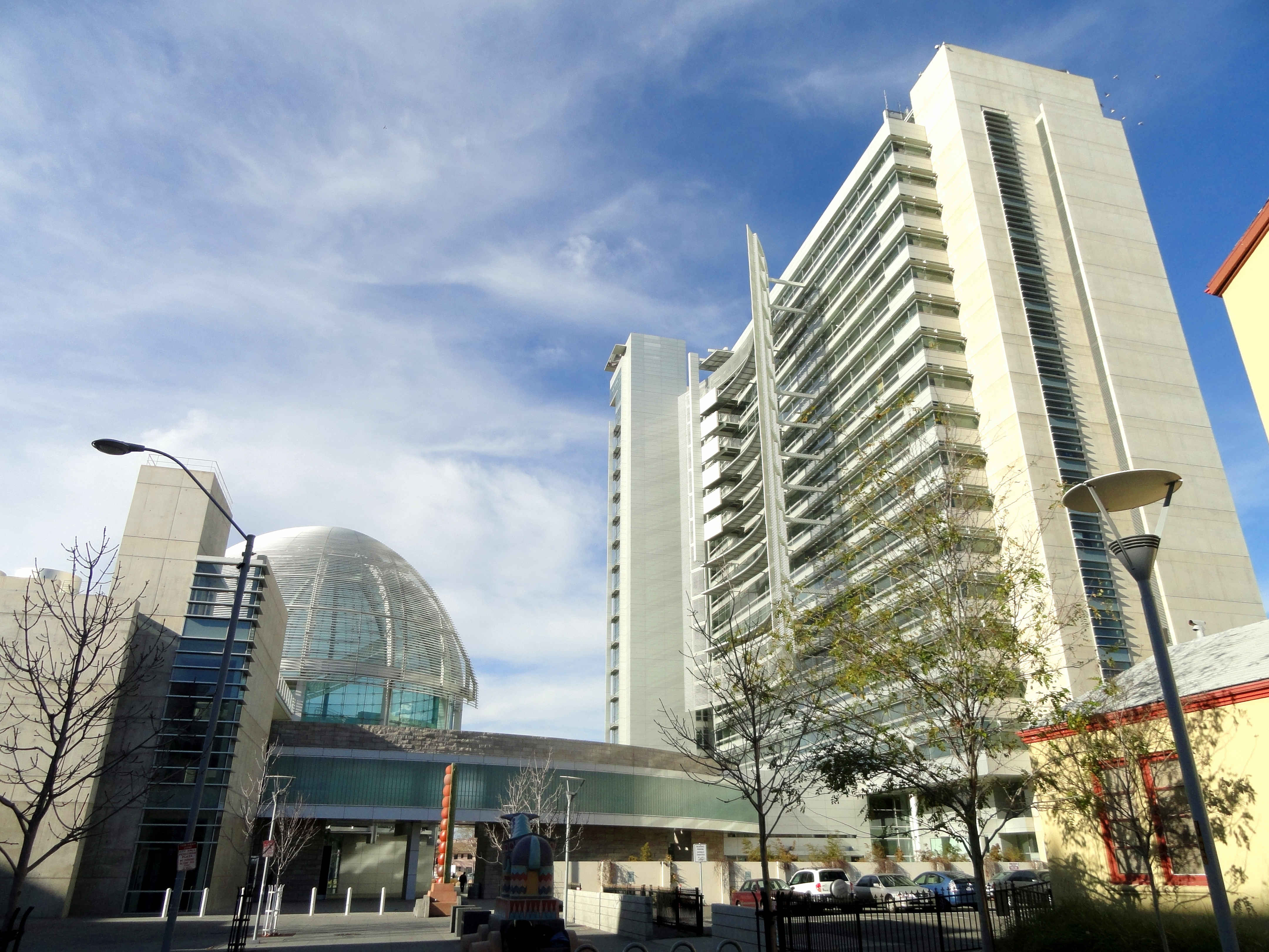 San Jose City Hall, San Jose, California, USA.